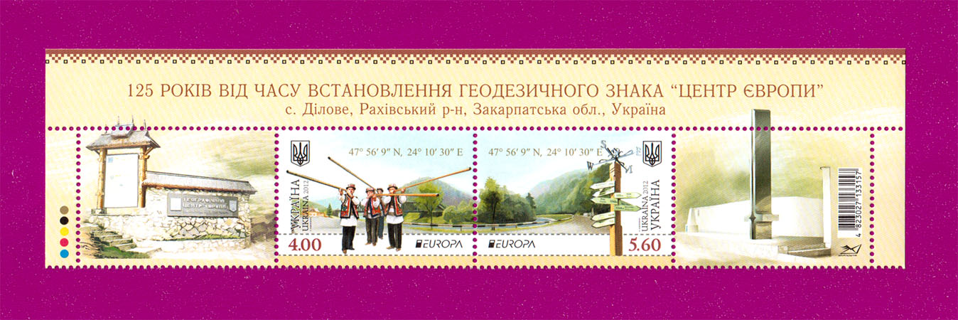 Dilove is the center of Europe